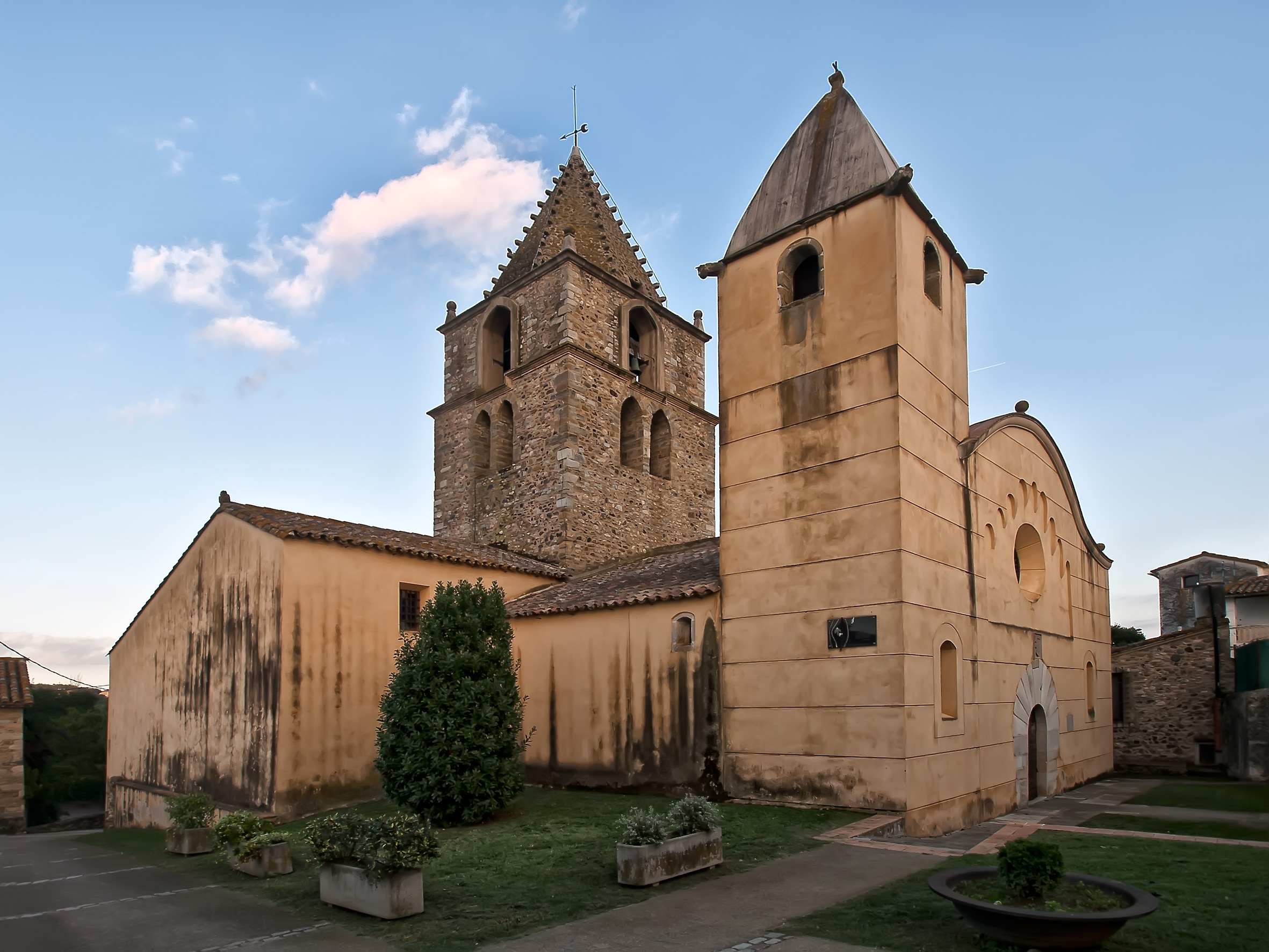 Ancient church of Sant Gregori (Catalonia, Spain)